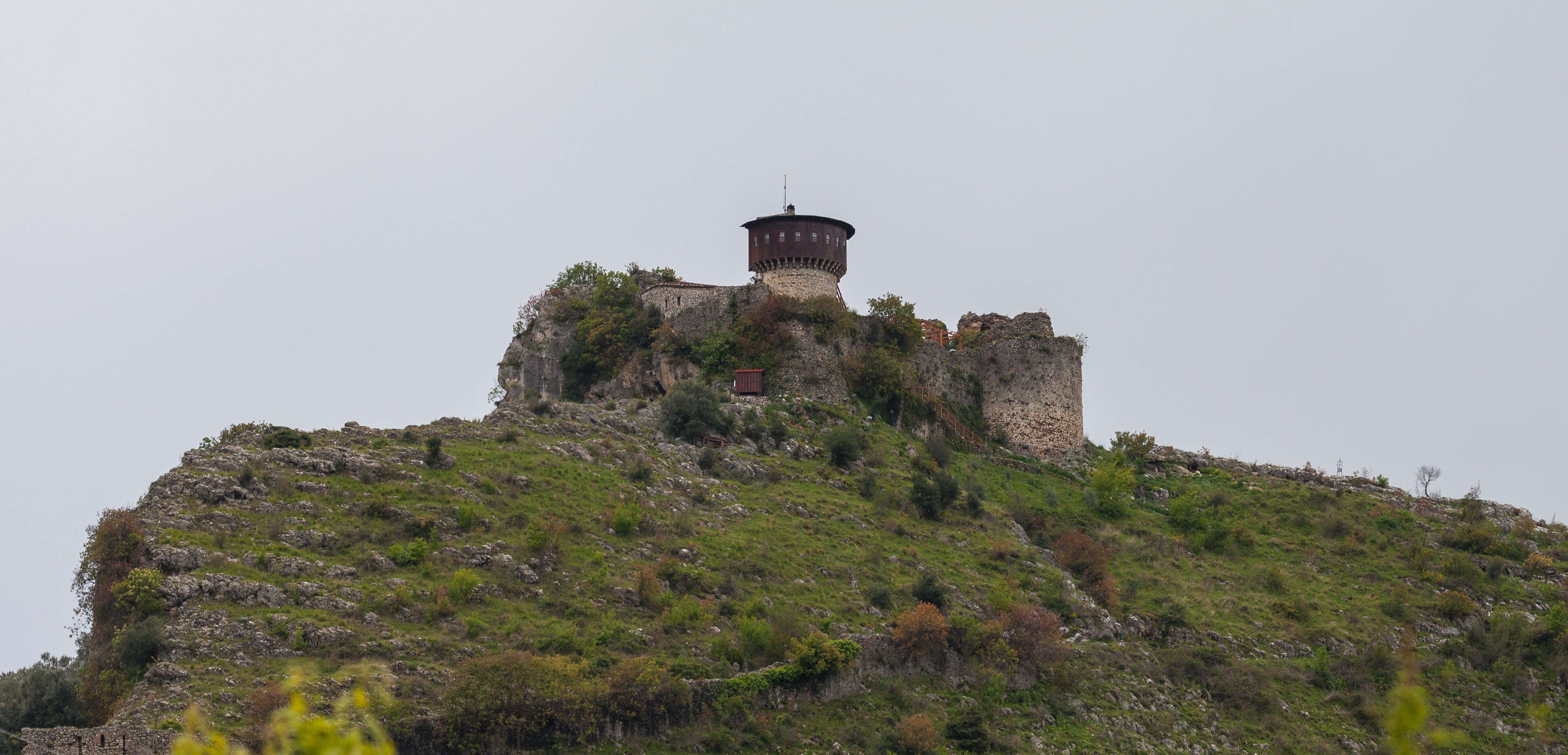 Petrela Castle, Petrela, Albania